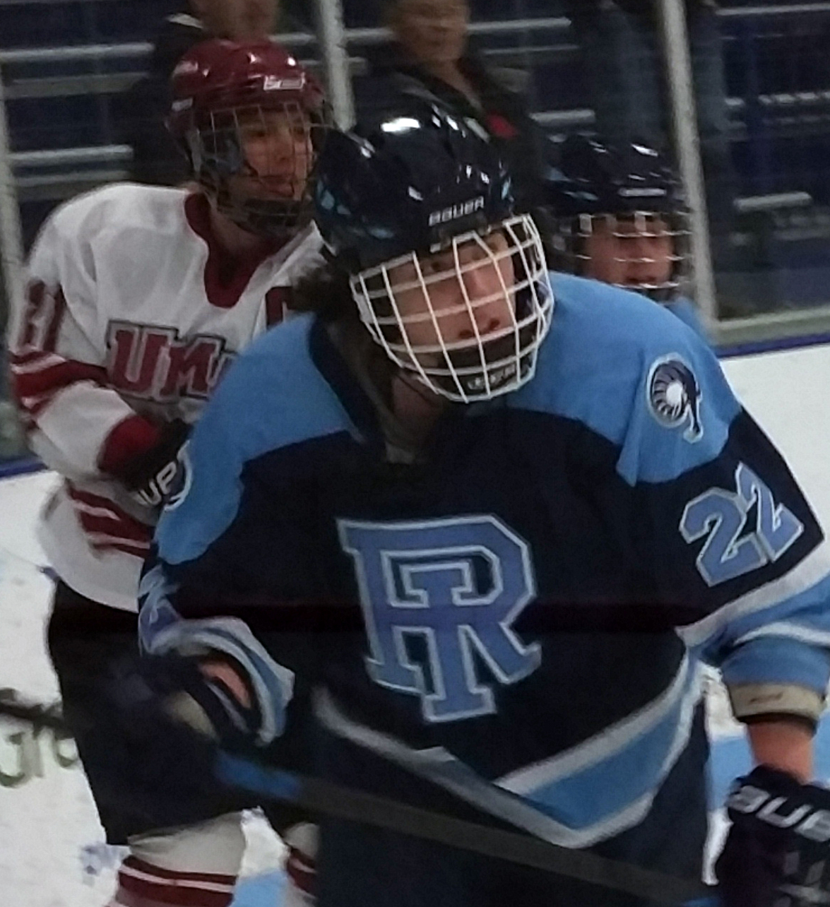 Former URI hockey player Kristy Kennedy in the 2015 ECWHL championship game